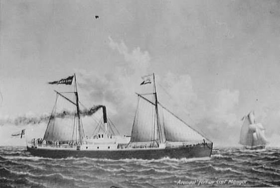 Norwegian steamship SS Arendal, built in 1865. Photograph of painting. Artist unknown